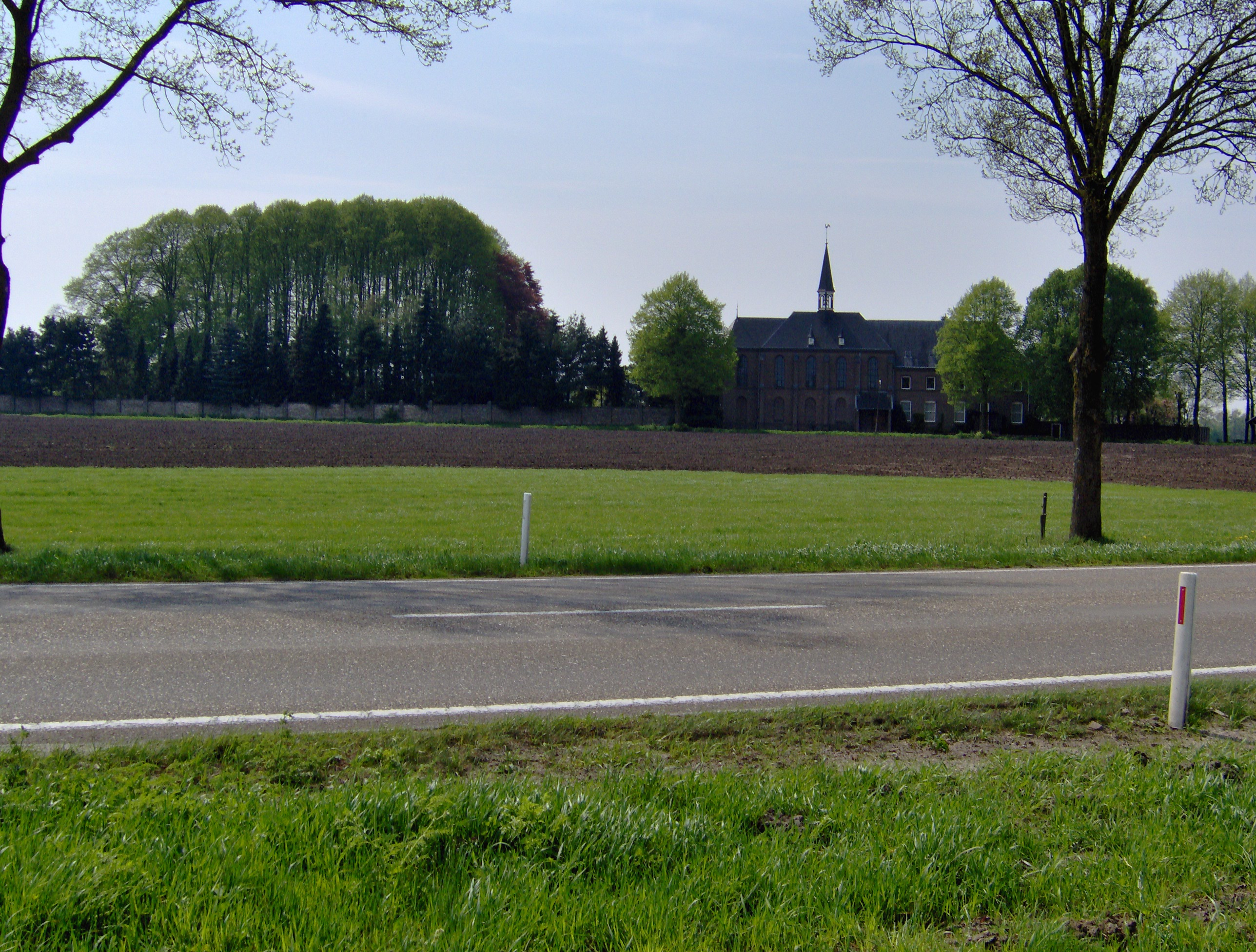 The Karmelietessenklooster, the monastery of Carmelite nuns, in Zenderen, municipality of Borne in the province of Overijssel, the Netherlands.